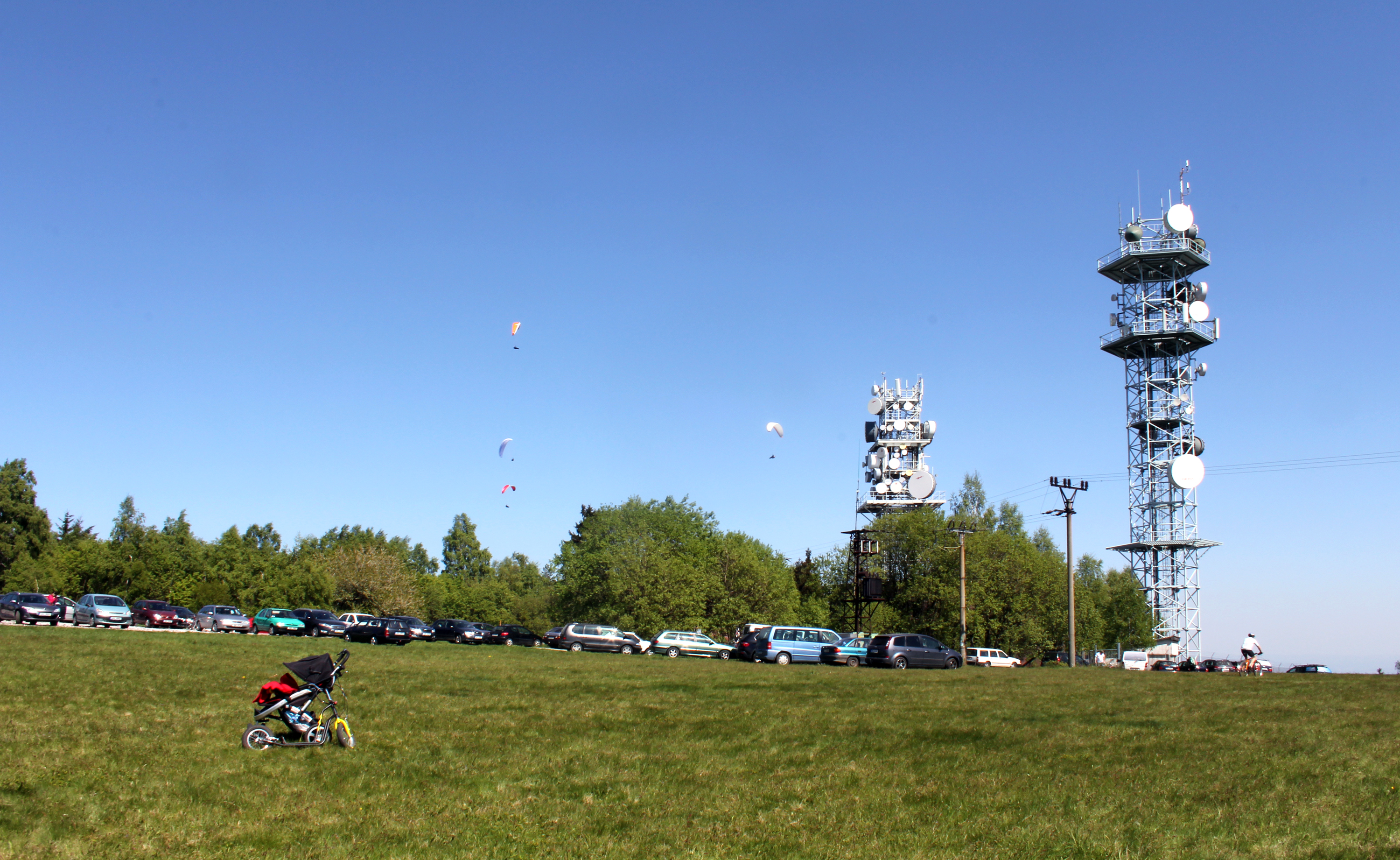 Flying paragliders over the hill Zvičina in east Bohemia, Czech Republic